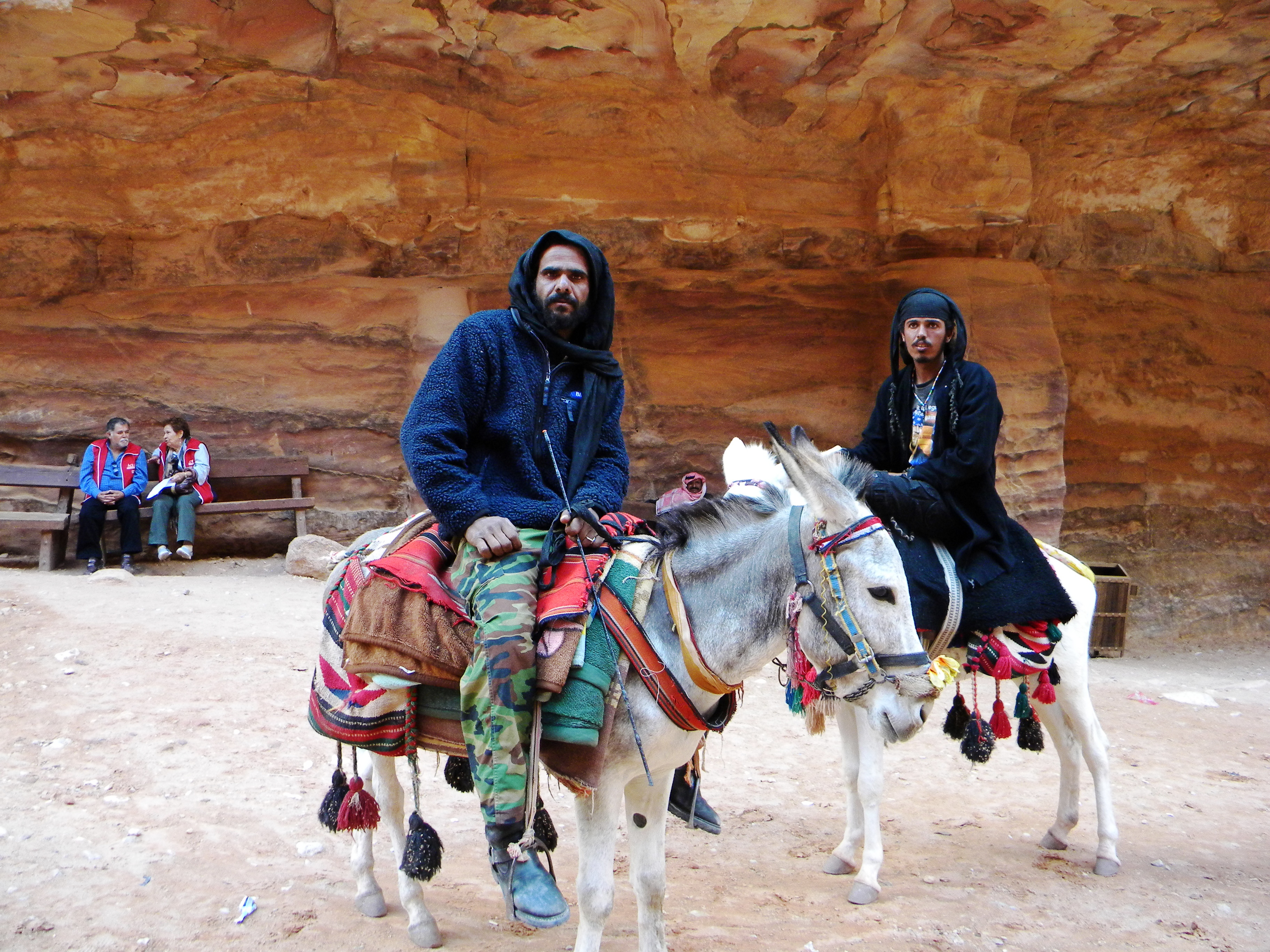 JORDAN, Petra (localnici pe magarusi) (BIM)